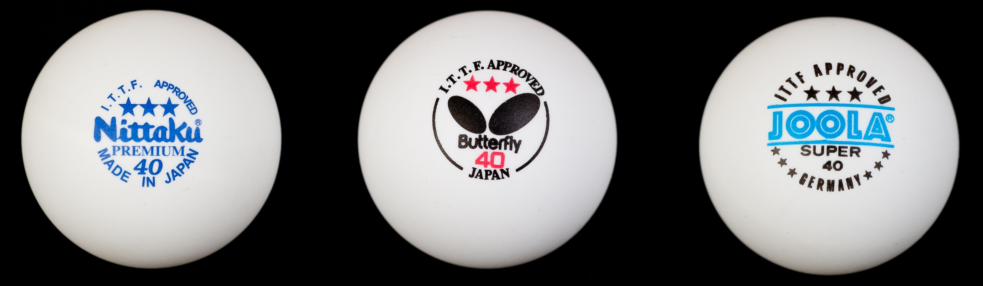 40 mm table tennis balls (made from celluloid) according to ITTF rules before 2014